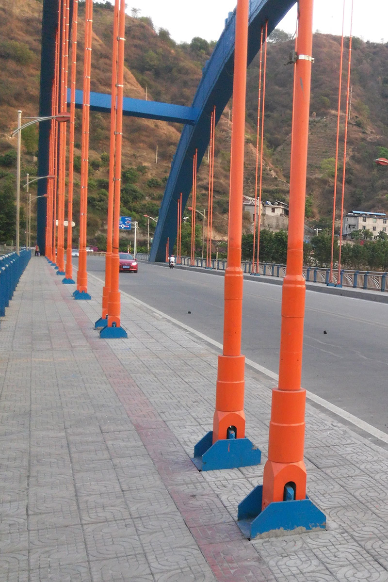 Luoguo Bridge repairing was completed in 2013. Doubled the number of the cables (Tie rods), and the cable anchor's style was changed too. The bridge deck collapsed in 2012 because one of the cable in the middle was broken and a girder fell into the Jinsha River.